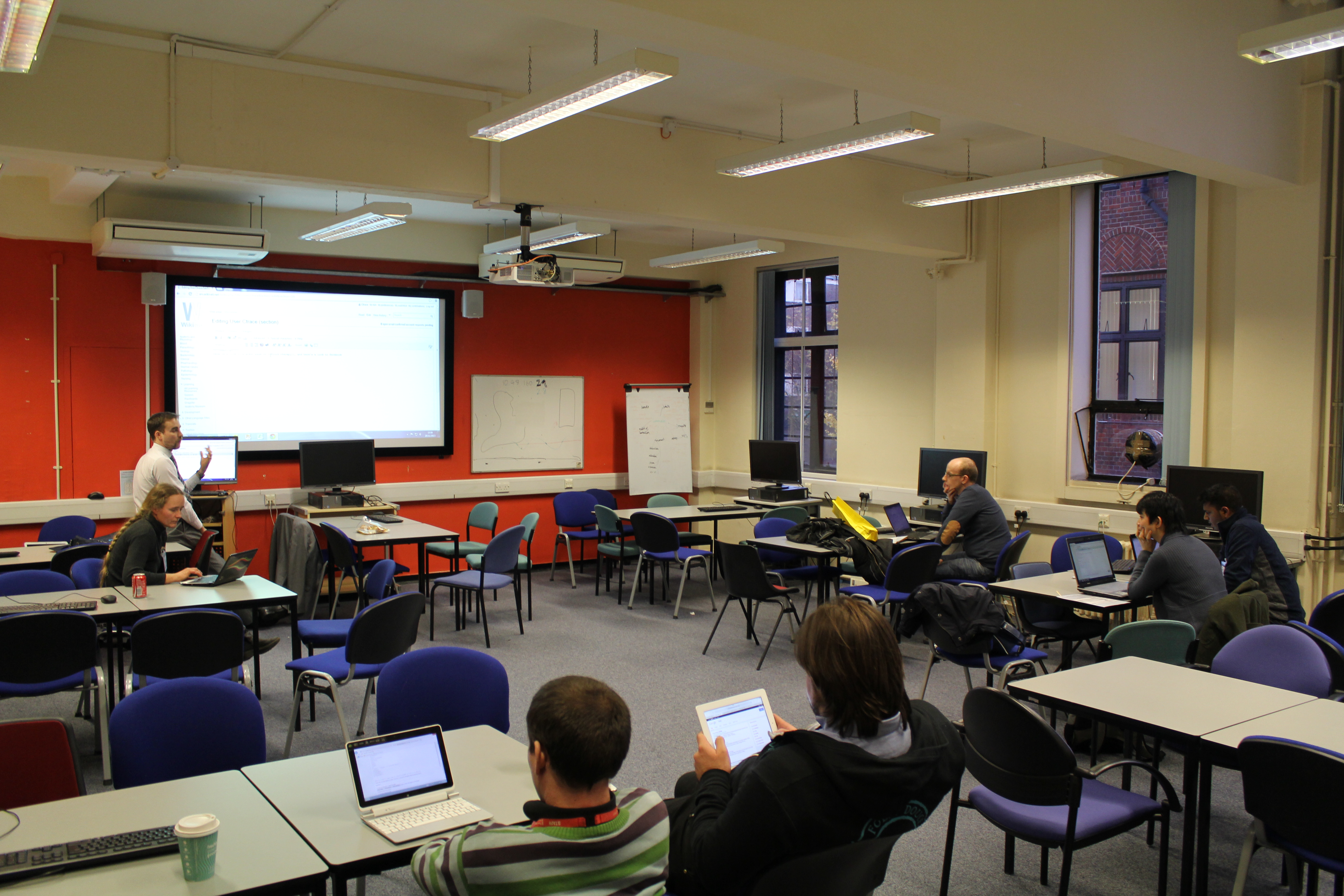 Wikivet group at the joint Wikimedia and Wikivet editathon at the Royal Veterinary College